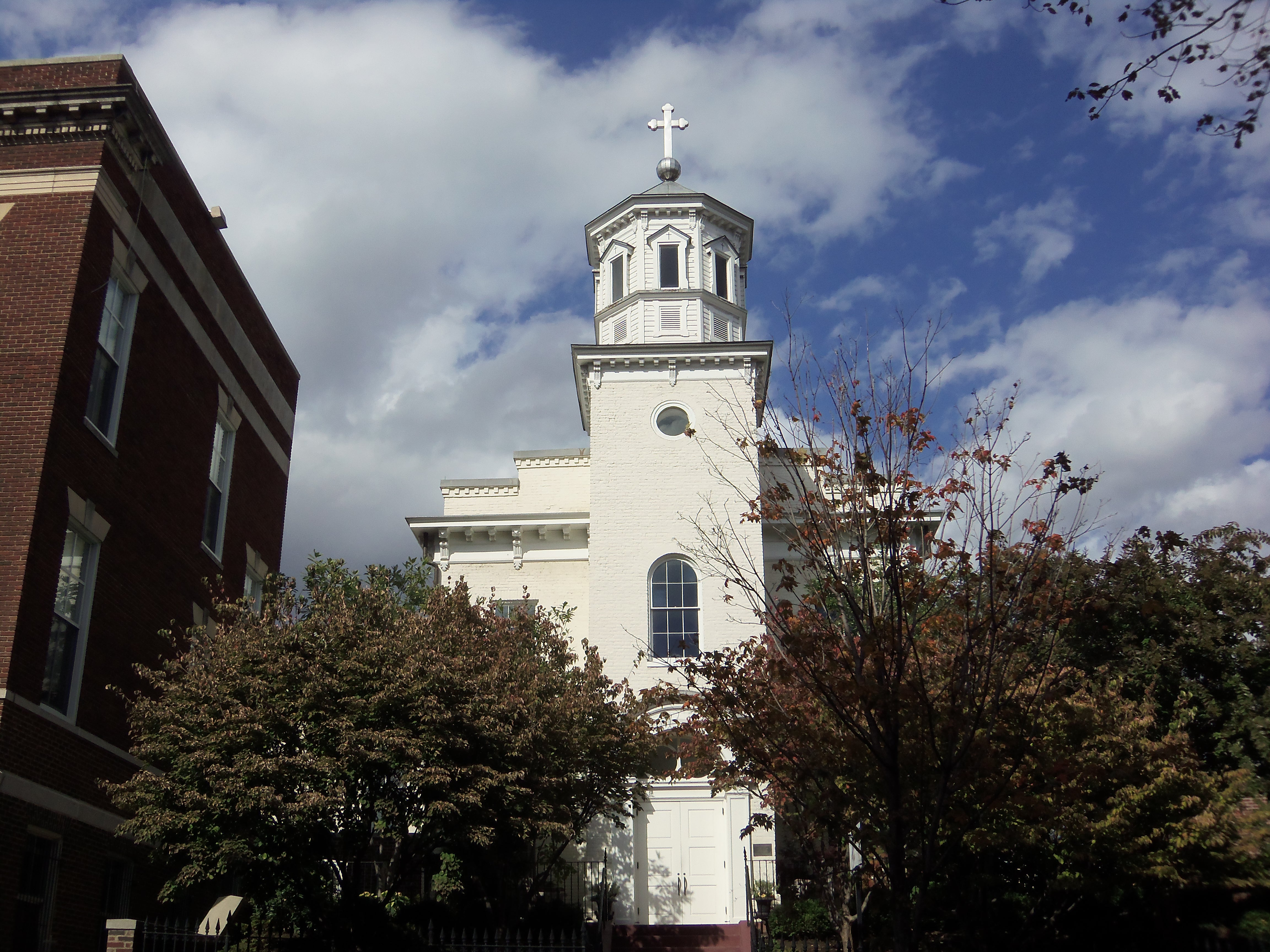 The Chapel of St. Ignatius is the original Holy Trinity Catholic Church in Georgetown, Washington, D.C. It is still utilized by the parish and is the oldest Catholic Church in the District of Columbia.